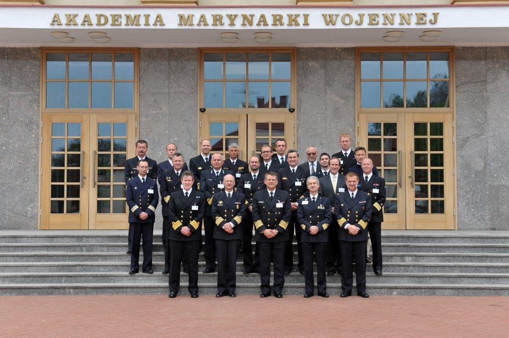 Meeting of the Superintendents of Naval Academies at the Polish Naval Academy (Gdynia), 2011